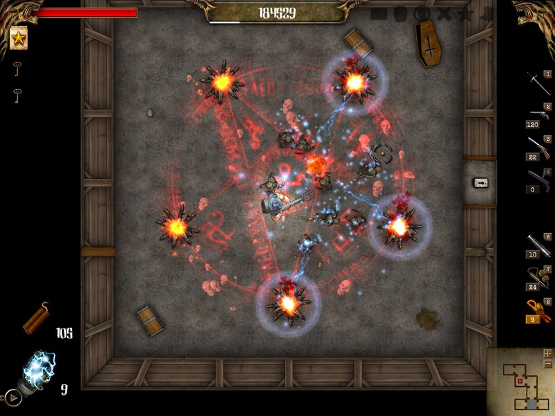 screenshot